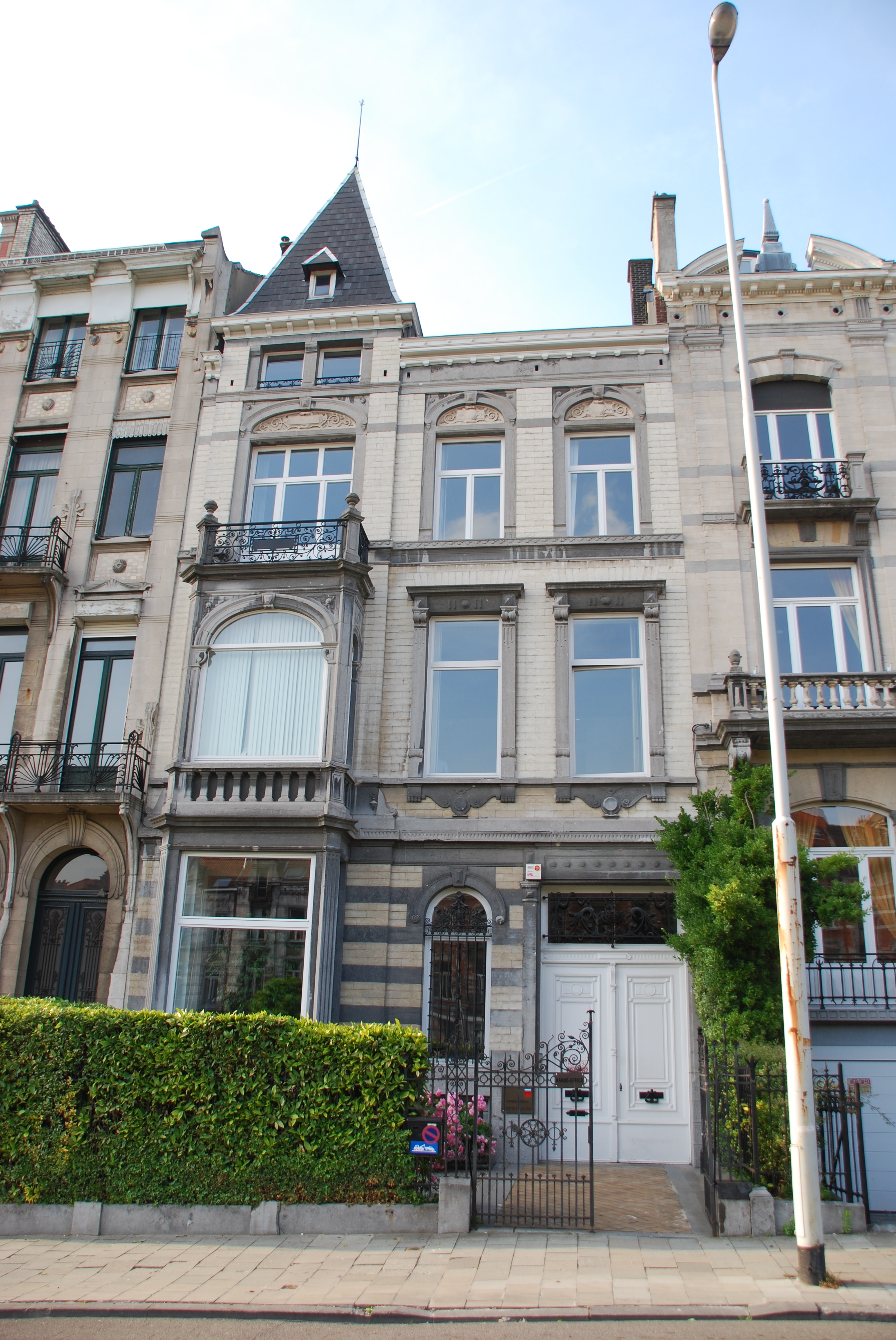 Hanse-Office, Brussels: Joint Representation of the Free and Hanseatic City of Hamburg and the State of Schleswig-Holstein to the EU, Avenue Palmerston 20, B-1000 Brussels. Hanse-Office: Gemeinsame Vertretung der Freien und Hansestadt Hamburg und des Landes Schleswig-Holstein bei der EU.